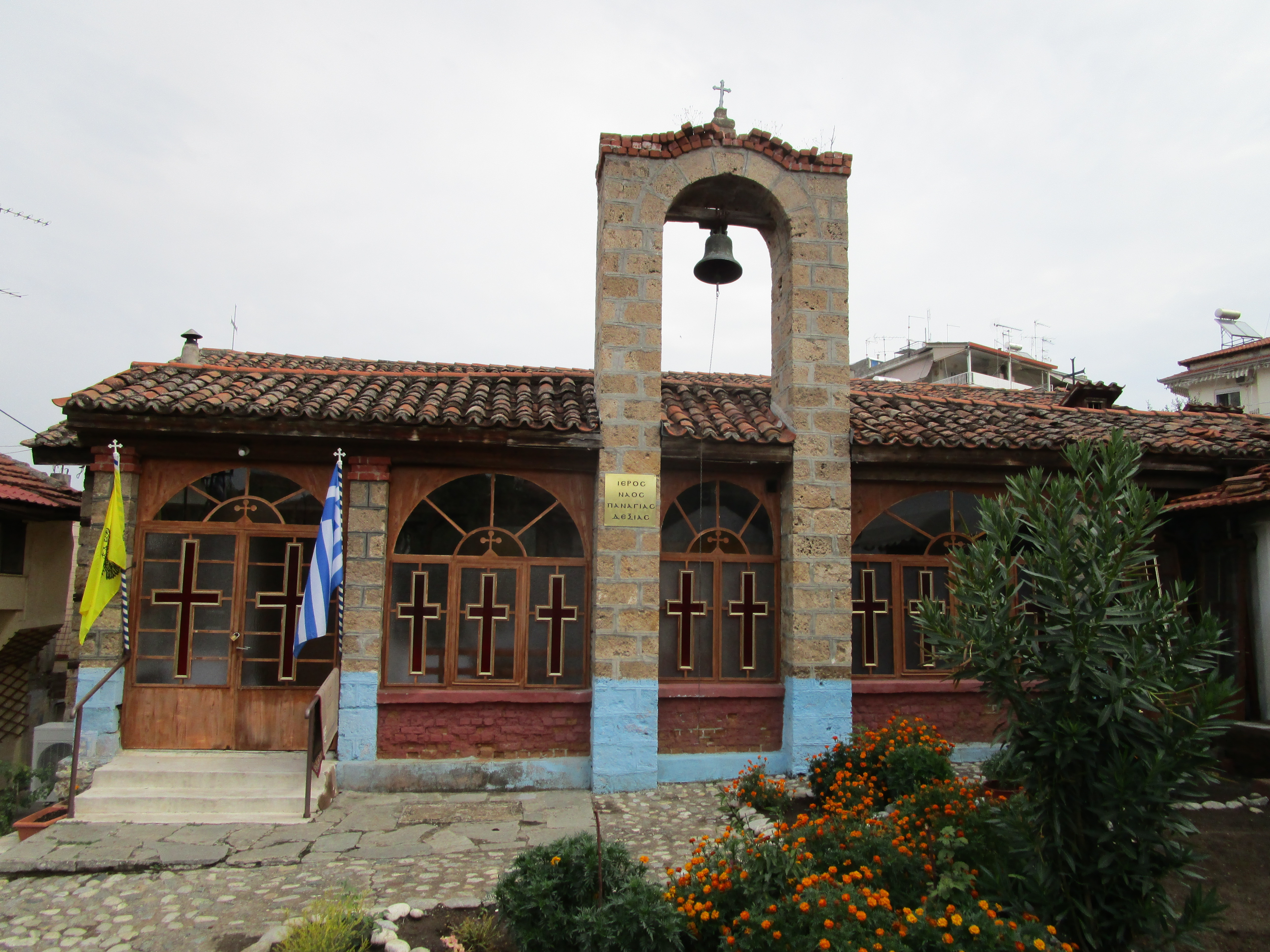 Panagia Dexia, Ber